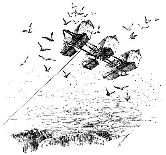 "The Ladder Kite Invented by Mr. Octave Chanute. The wings are fastened to a central frame made like a pair of "lazy-tongs" so as to produce various transformations and changes in the position and angle of incidence of the wings. This kite flies very steadily, pulls very hard when arranged as shown in this illustration, and very little (while sustaining the same weight) when adjusted so as to resemble a step-ladder. It is the prototype of a gliding-machine recently constructed by Mr. Chanute". Millet, J.B. 1897, "Scientific Kite-Flying", The Century Magazine 54 (1): 66-78.